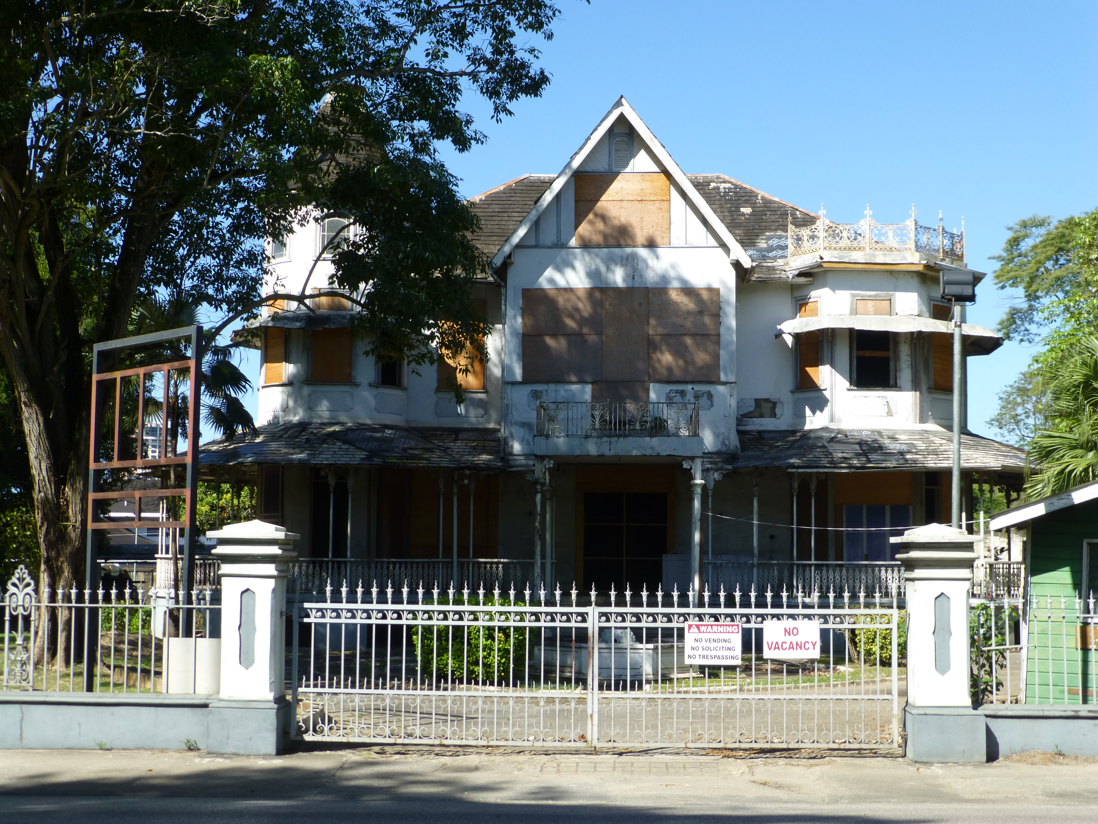 Mille Fleurs, Magnificent Seven, St. Clair, Port of Spain, Trinidad.